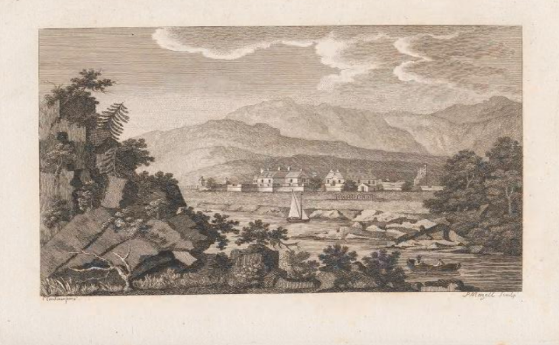 The old fort at Fort Augusts, Scottish Highlands